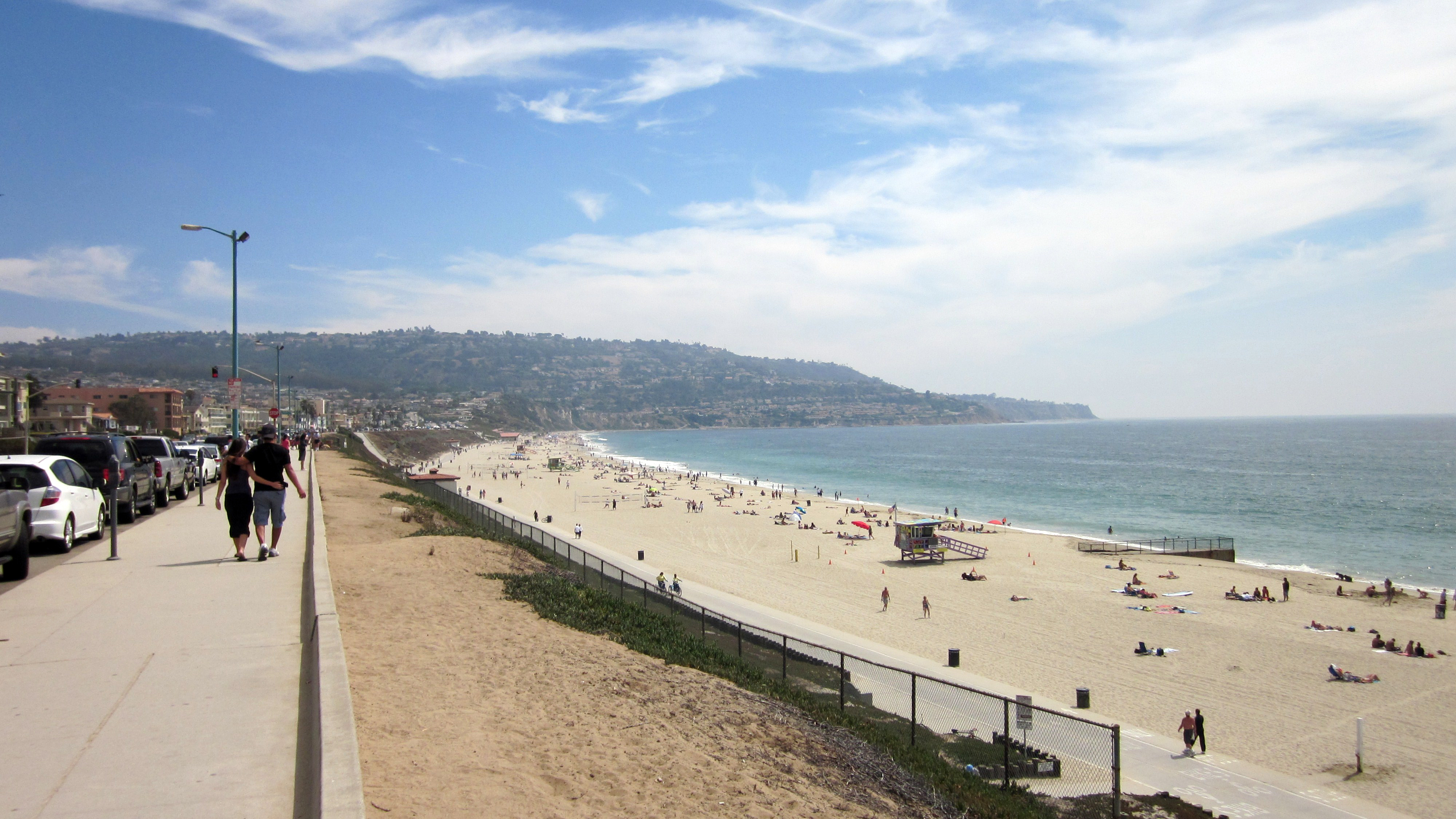 View facing south on Esplanade at G Street (approximately) in Redondo Beach of Torrance Beach with Palos Verdes in background.